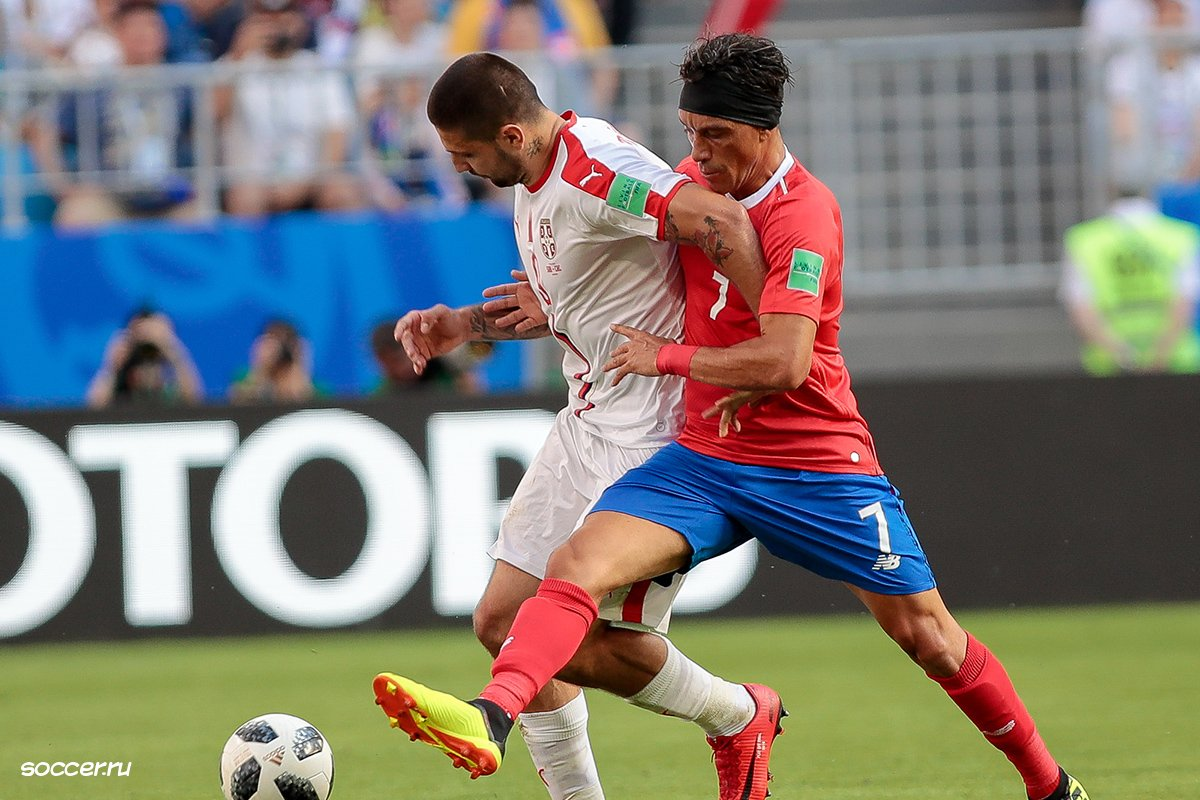 Christian Bolaños played his third FIFA World Cup representing the Costa Rica national team.